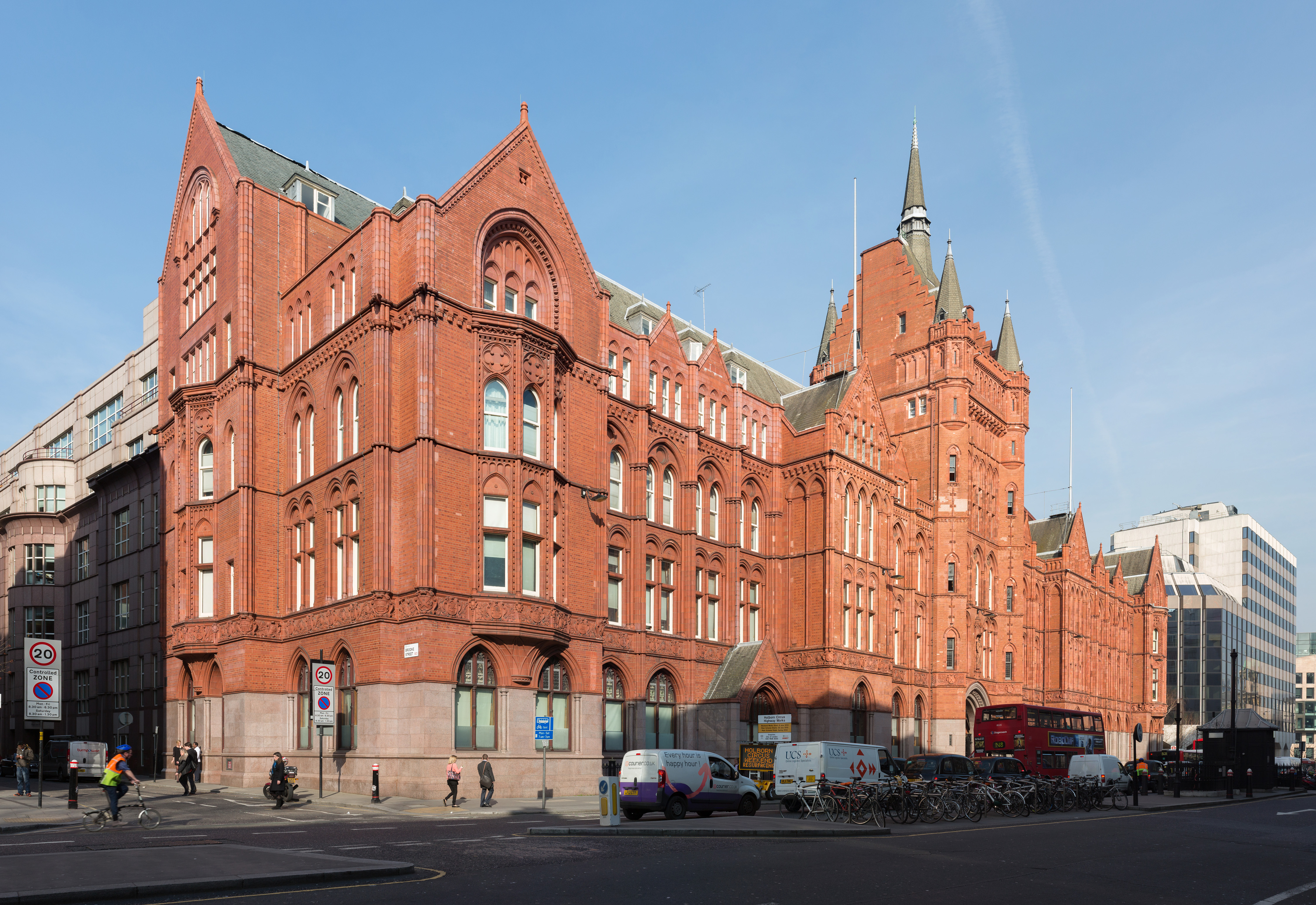 The Prudential Assurance Building viewed from High Holborn.